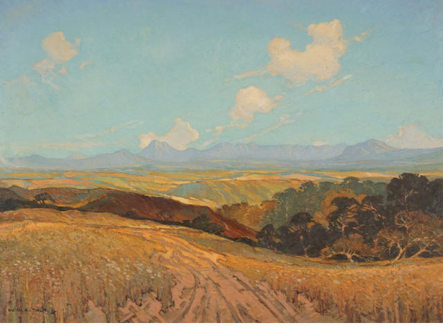 Western Cape landscape, possibly near Riviersonderend